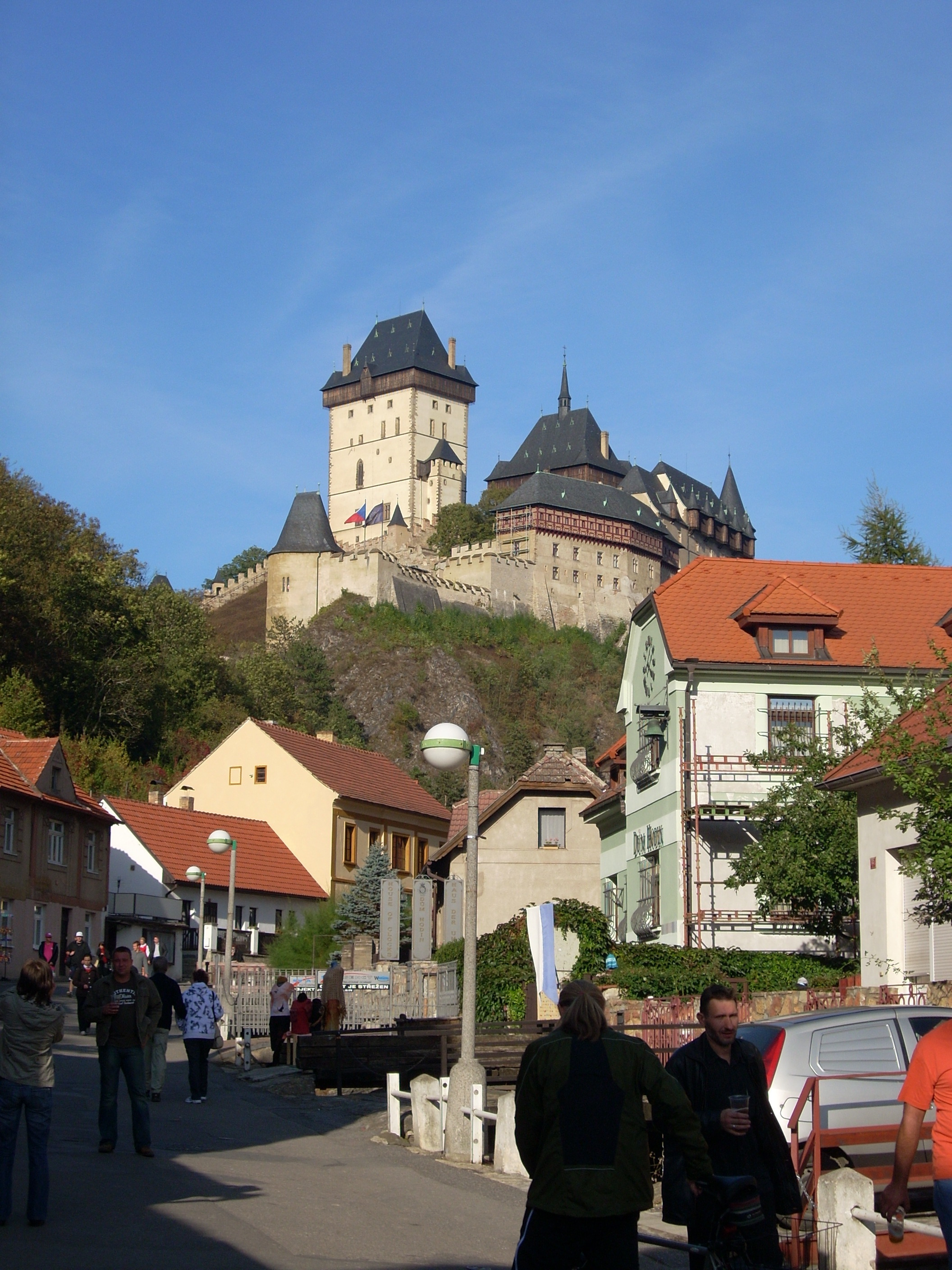 Castle in Karlstejn